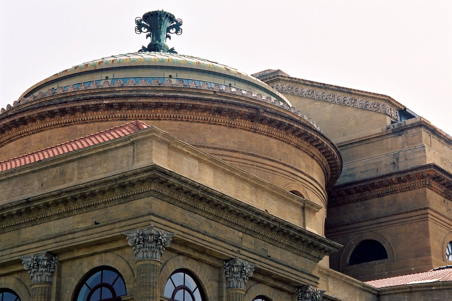 Teatro Massimo, Palermo. Detail.